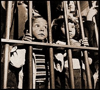 Screenshot of film in public domain. Film: Salt of the Earth. Low resolution and edited for sepia saturation.